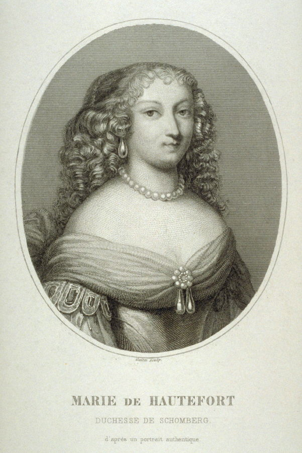 Portrait of Marie de Hautefort, by Antoine Joseph Gaitte.